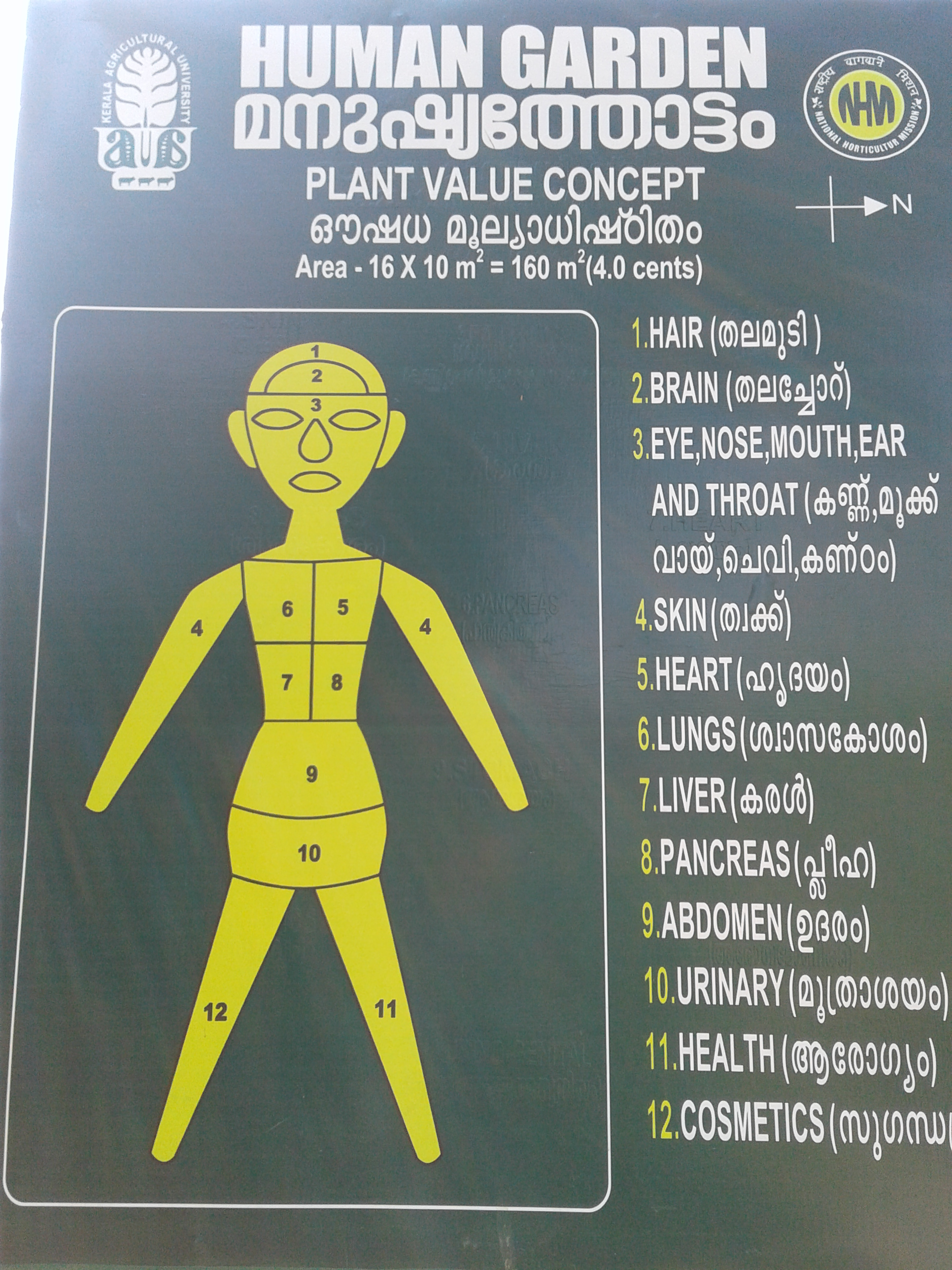 pictorial diagram of a human garden